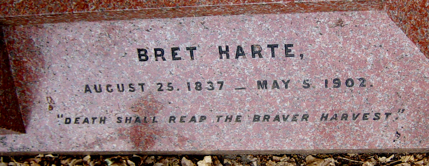 I took this photograph today of the inscription on Bret Harte's gravestone in the Churchyard of St Peter's Church, Frimley, Surrey, England.